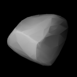 3D convex shape model of 1251 Hedera, computed using light curve inversion techniques. J. Hanuš, J. Ďurech, M. Brož, B. D. Warner (June 2011). "A study of asteroid pole-latitude distribution based on an extended set of shape models derived by the lightcurve inversion method". Astronomy and Astrophysics 530: A134. ISSN 0004-6361. arXiv